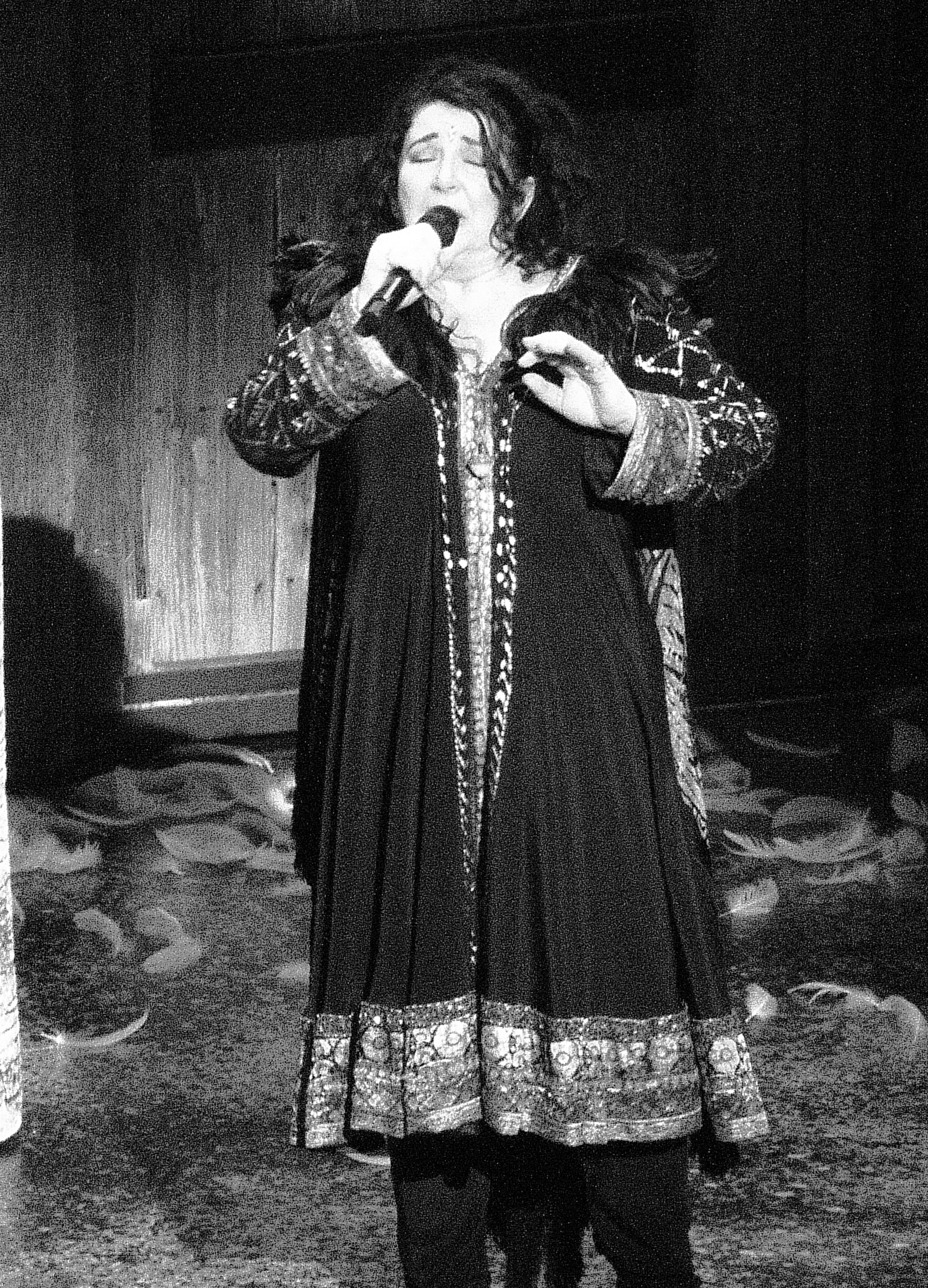 Kate Bush performing at her Before The Dawn Tour on 1 October 2014